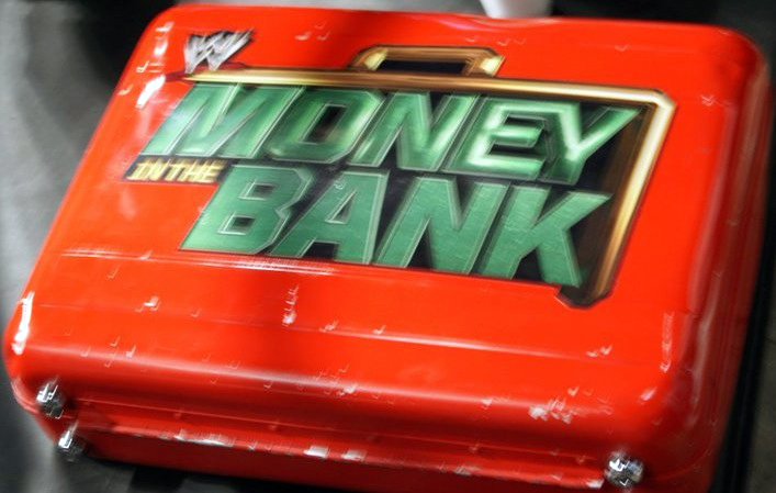 The Miz's Money in the Bank briefcase